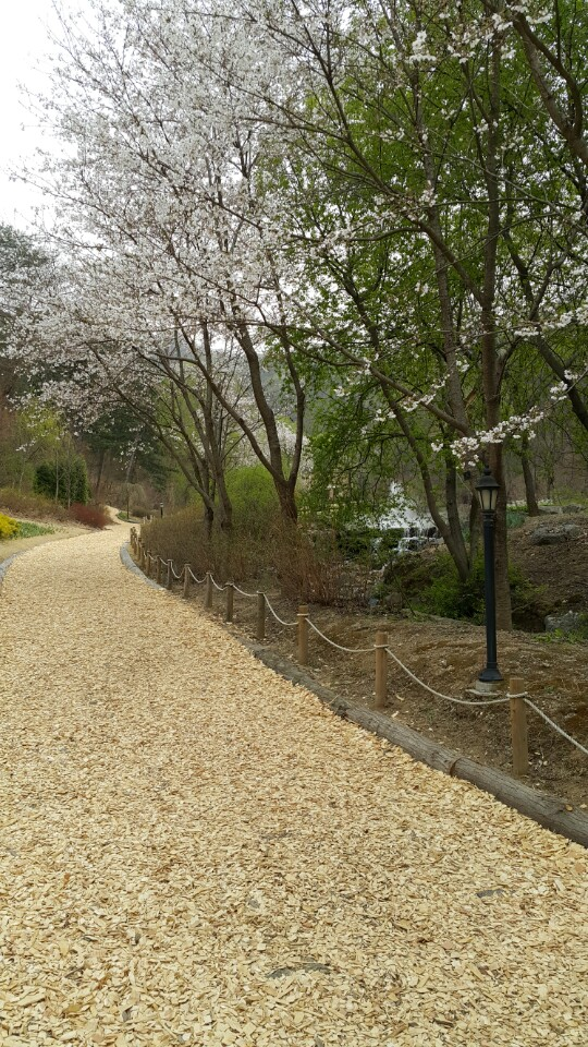 Road covered with woodchips in Jade Garden